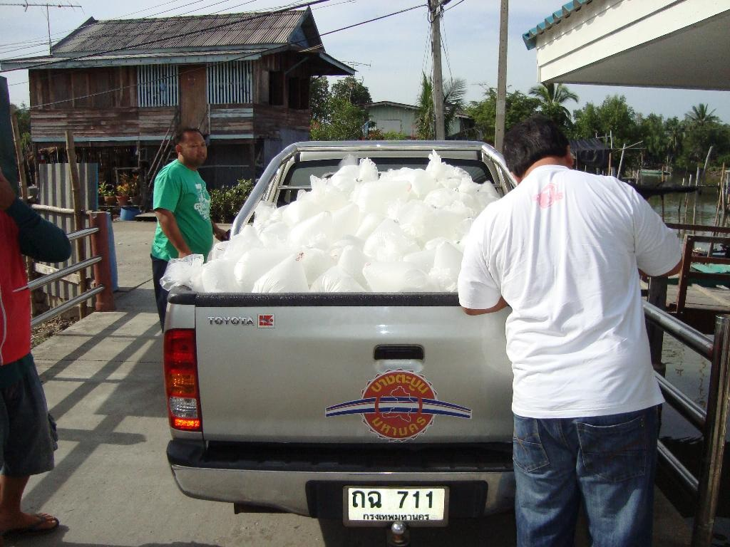 การช่วยเหลือแหล่งเพาะพันธุ์สัตว์น้ำทะเล